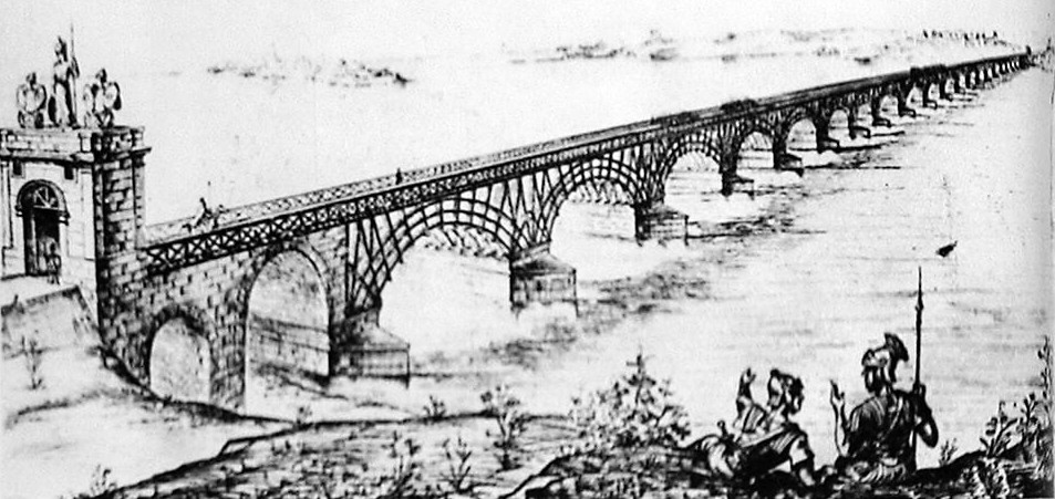 Traian's bridge at Drobeta